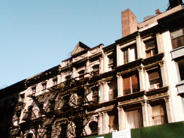 Original caption: These buildings, between 6th Avenue and Broadway on 28th Street, housed the sheet-music publishers that were the center of American popular music in the early 20th Century.